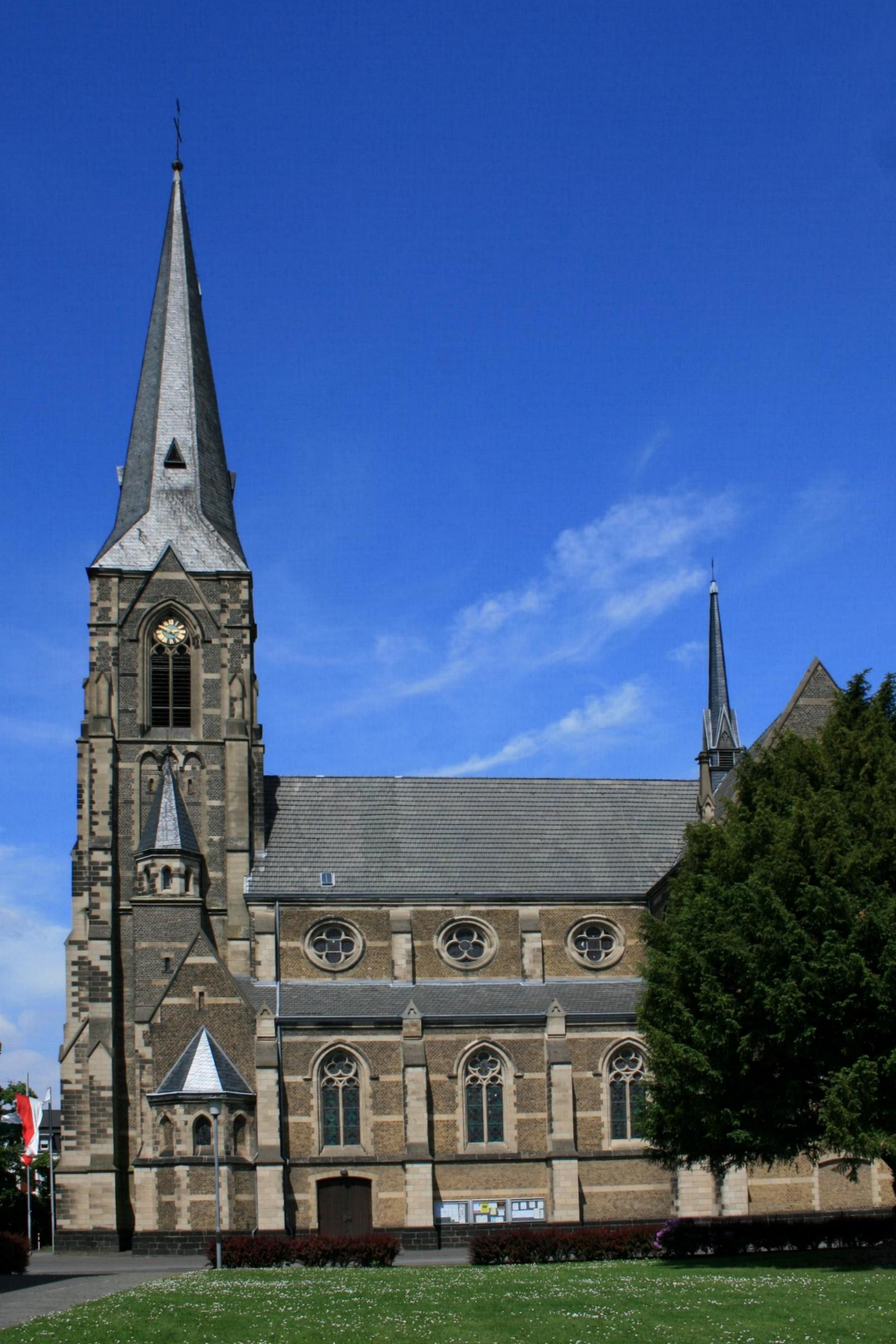 Cultural heritage monument No. H 064 in Mönchengladbach